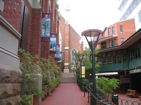 The entrance of Trinity Arcade, at the St Georges Terrace end, Perth, Western Australia.